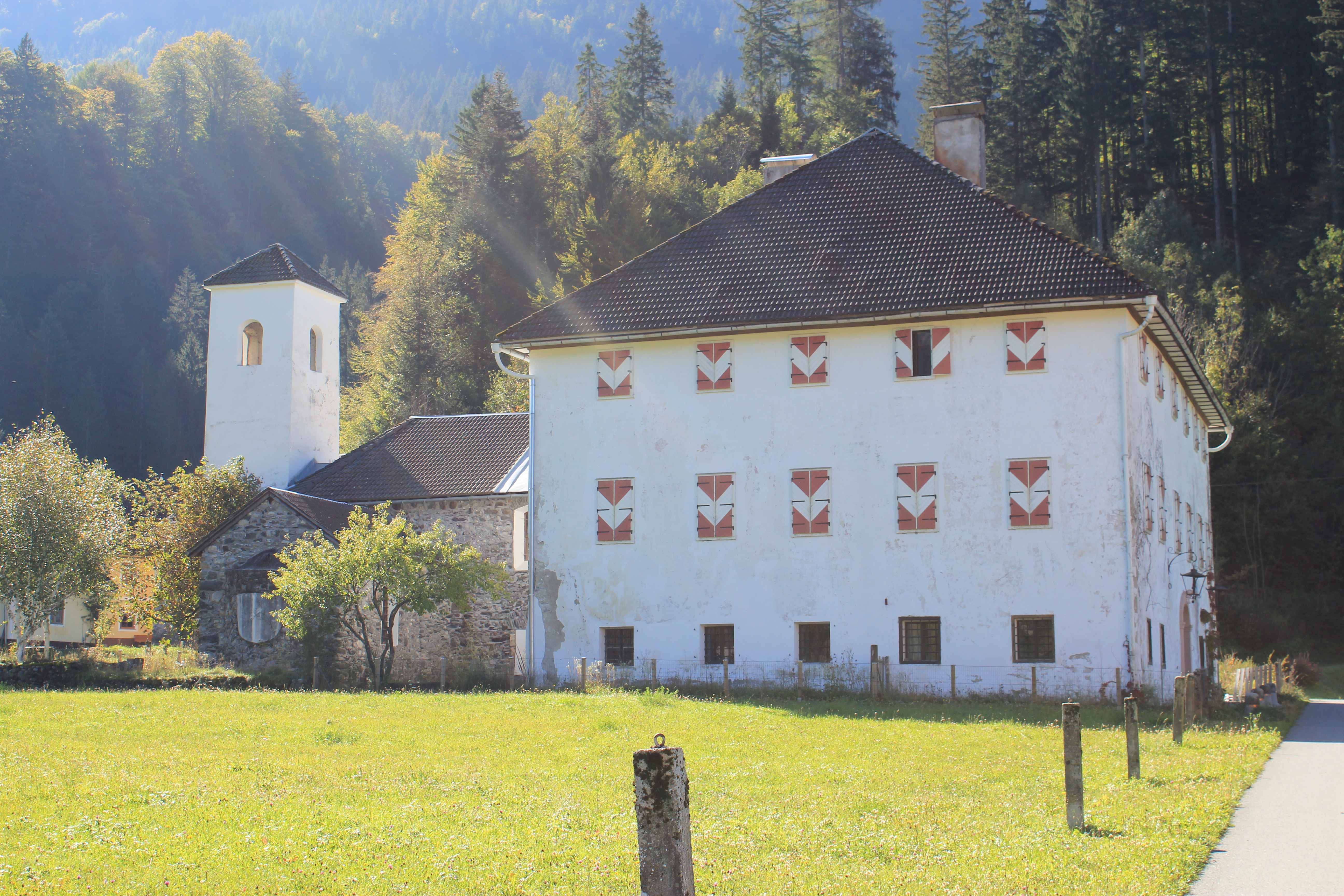 Weidenburg castle in the community of Kötschach-Mauthen